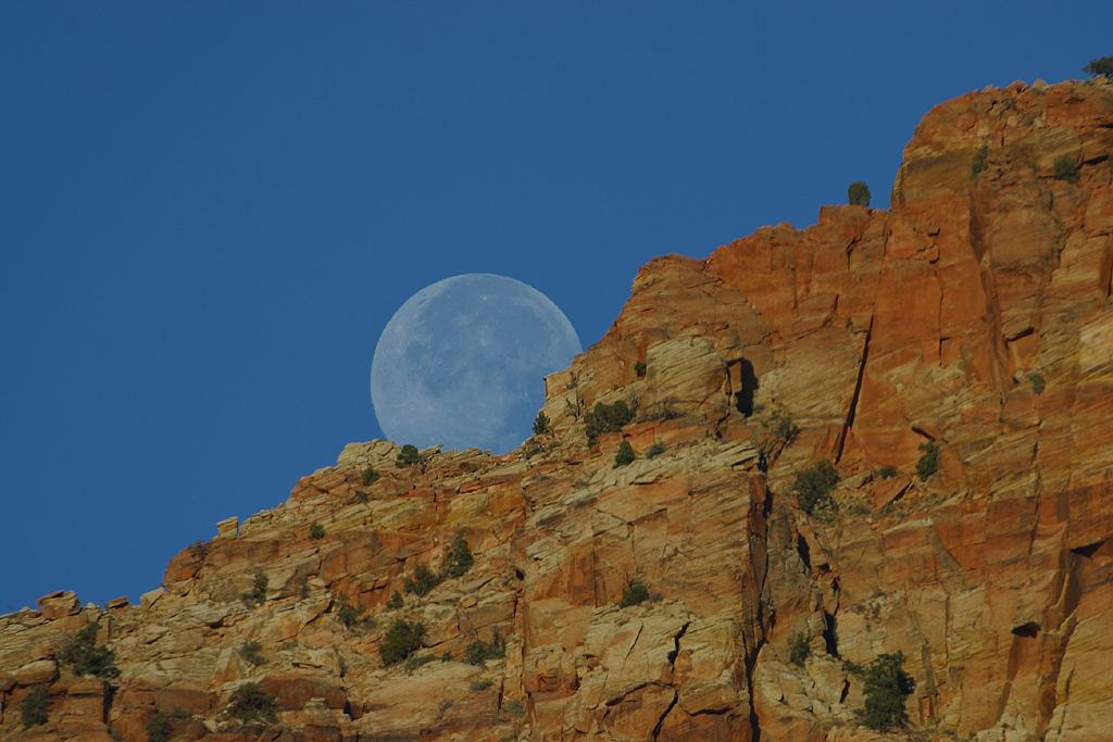 Moonrise over the cliffs in Zion